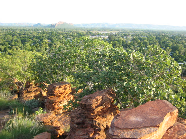 View of Kununurra, Western Australia from lookout, Hidden Valley National Park